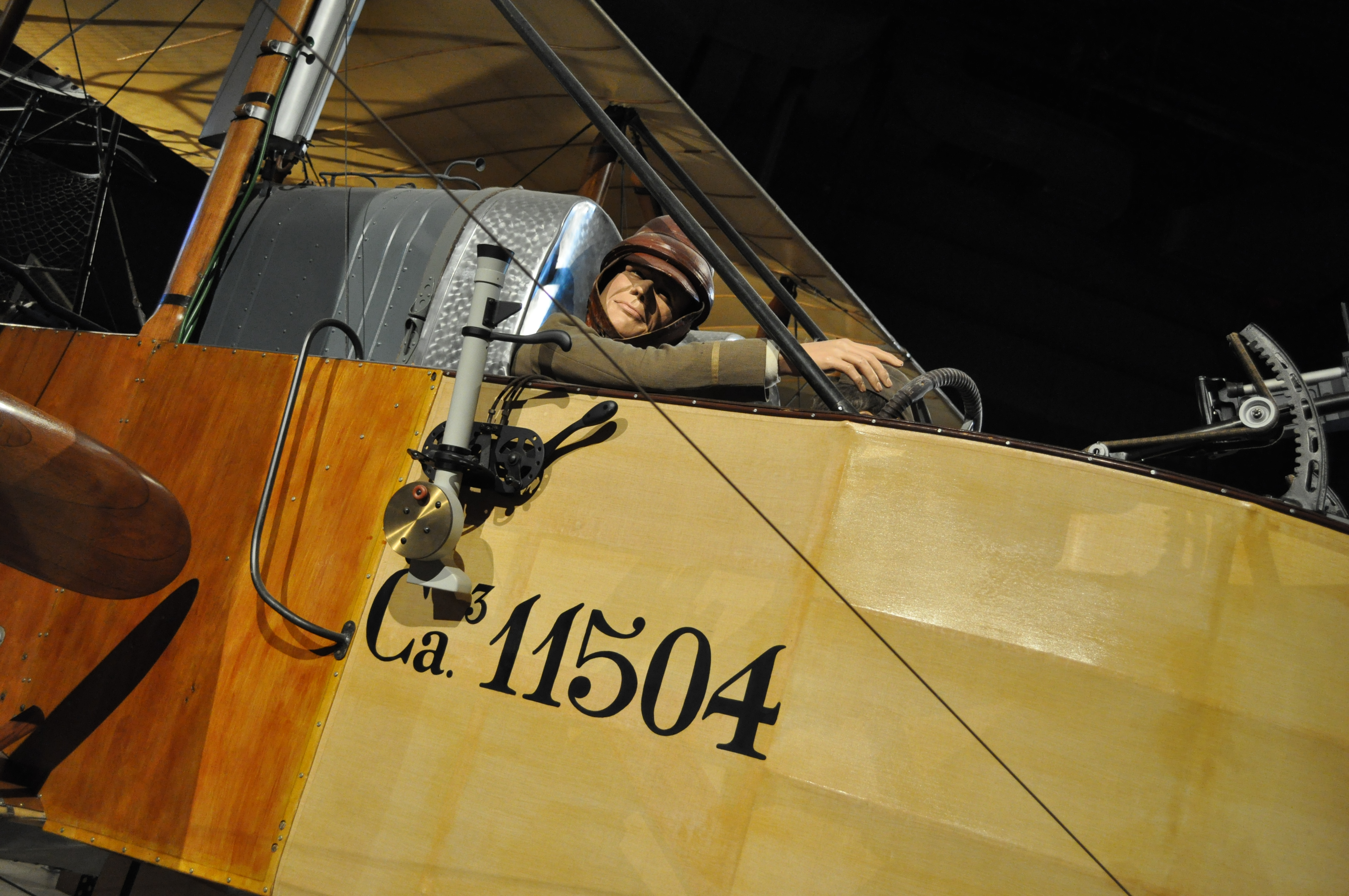 Cockpit and aviator view of Caproni Ca.36 displayed at National Museum of the United States Air Force .